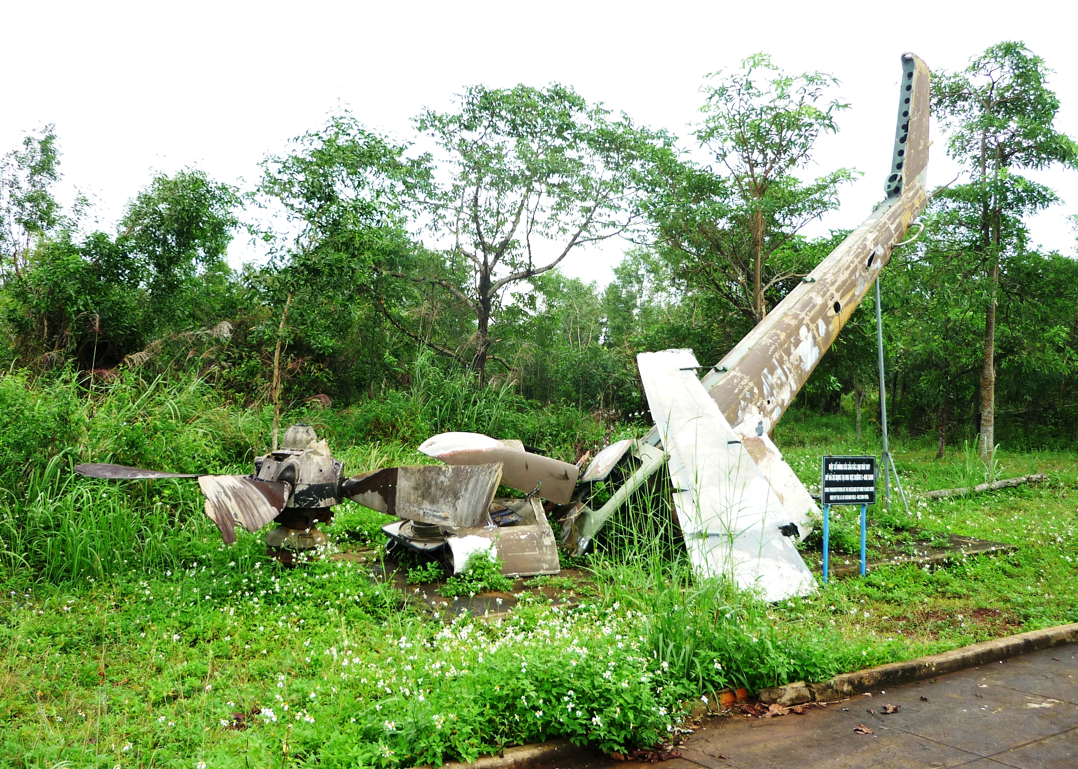 Various pieces of wreckage at the Khe Sanh museum, Vietnam. Visible is the tail boom of an UH-1 helicopter and the propeller of (probably) a Lockheed C-130 Hercules.